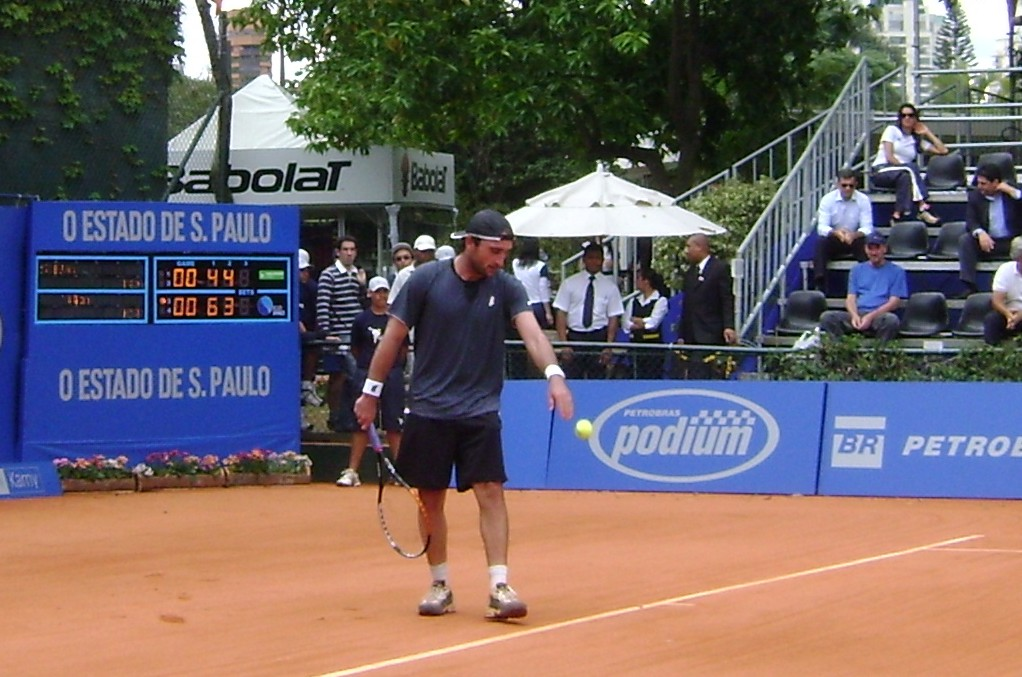 Santiago Ventura, tennis player from Spain, at São Paulo Challenger